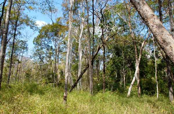 THIS IS AN 15 DAY MIXED DECIDOUS